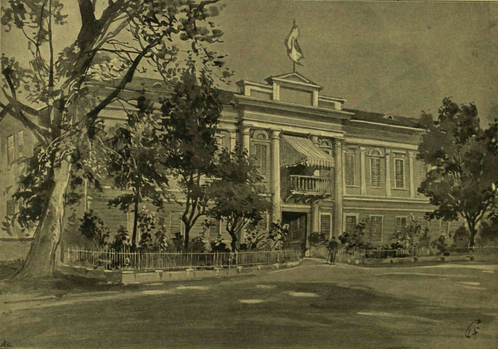 Building in Buziaș, Romania.